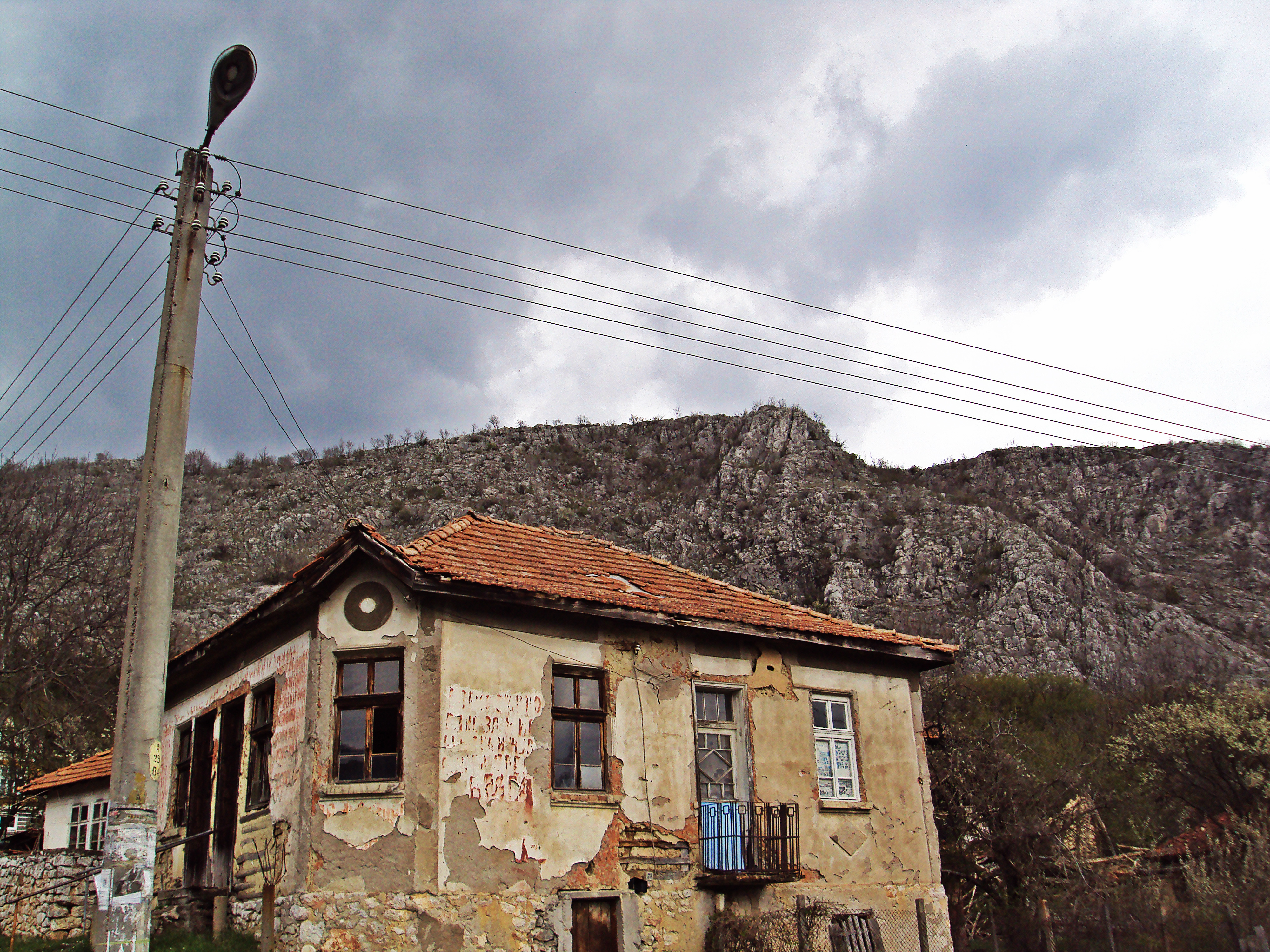 Paramun Bulgaria